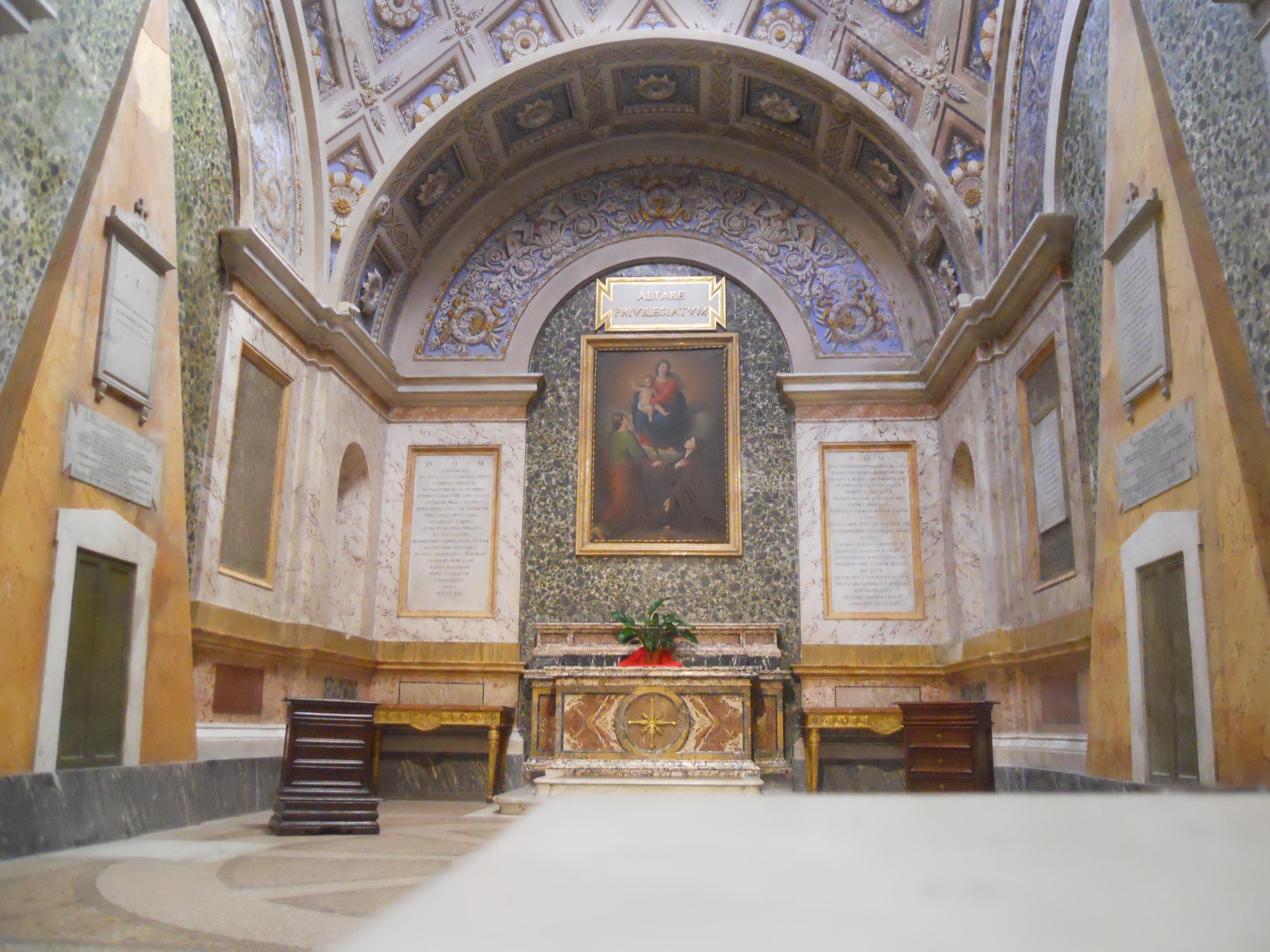 Saint Caterina Chapel - Cathedral of Rieti (Lazio, Italy)